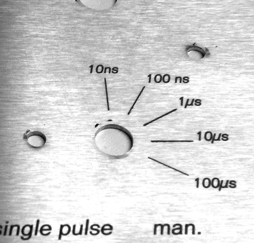 A laser cut and engraved stainless steel plate